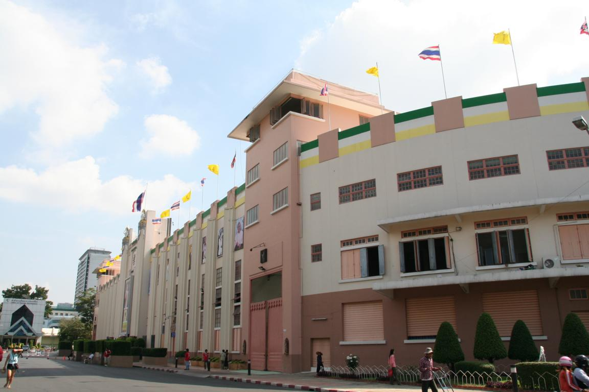 Front of Suphachalasai Stadium